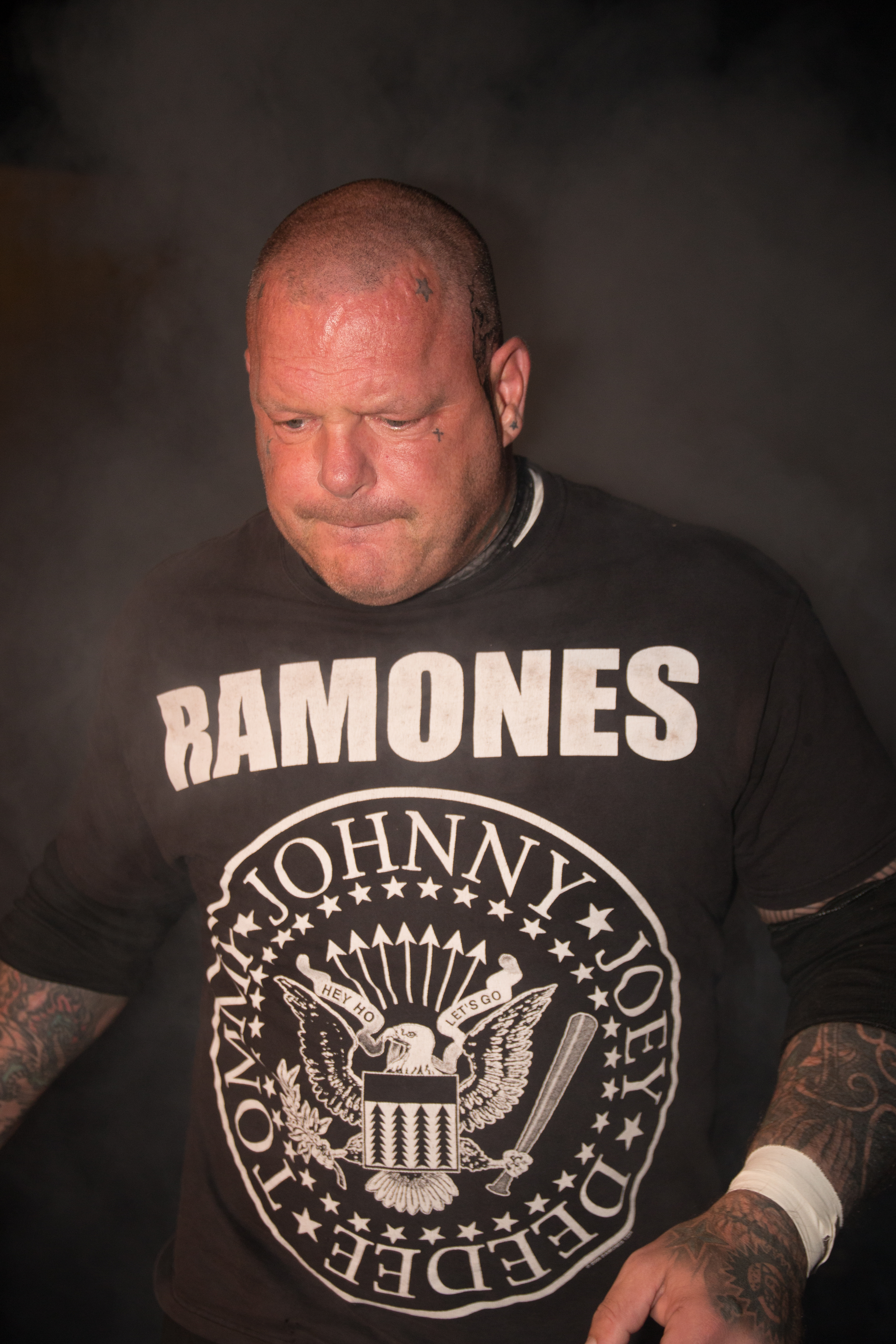 Professional wrestler Vampiro making his ring entrance at a LuchaTO show in Toronto, ON